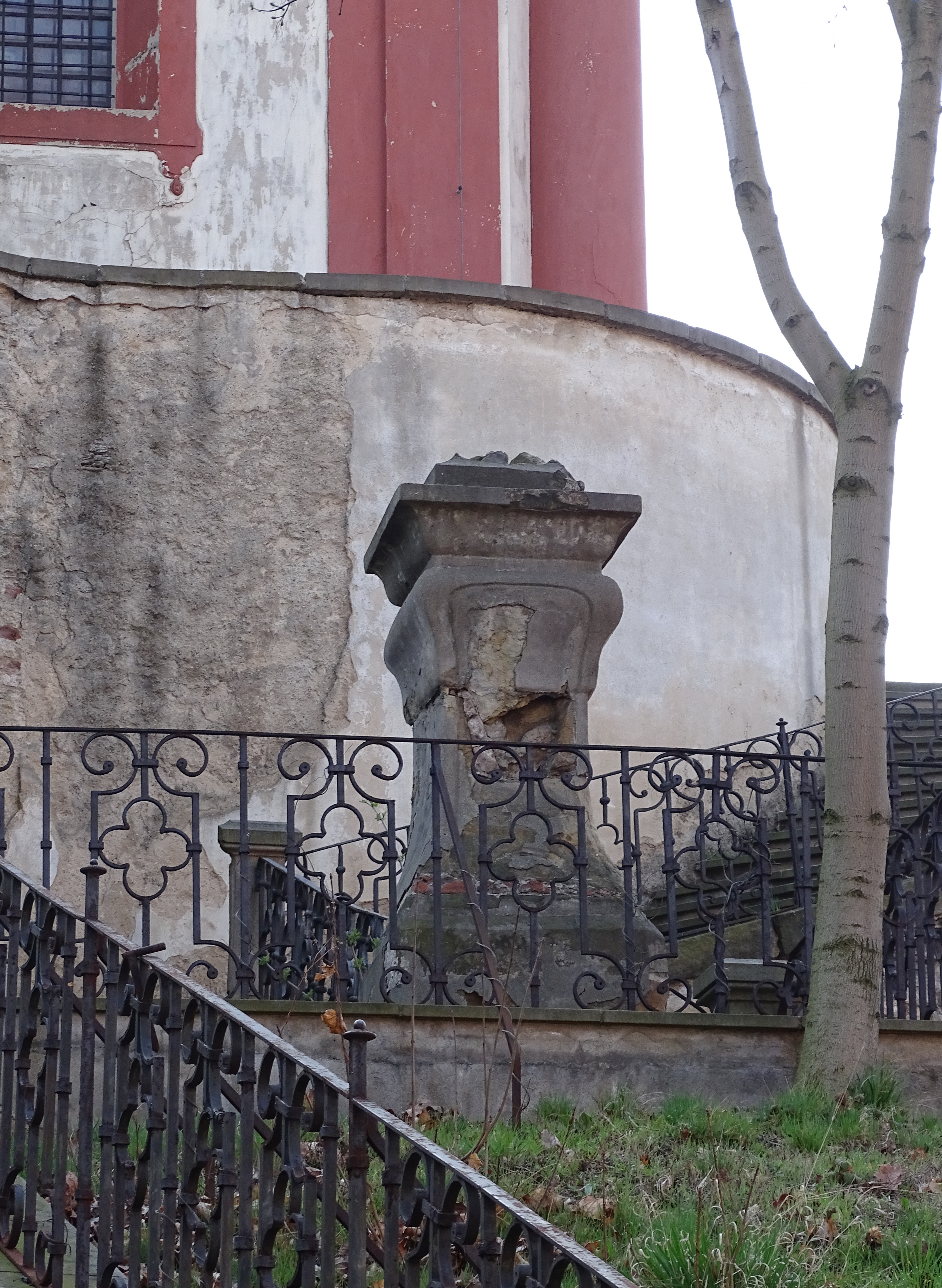 Liběchov, Mělník District, Central Bohemian Region, Czech Republic. A staircase to the church of Saint Gall.